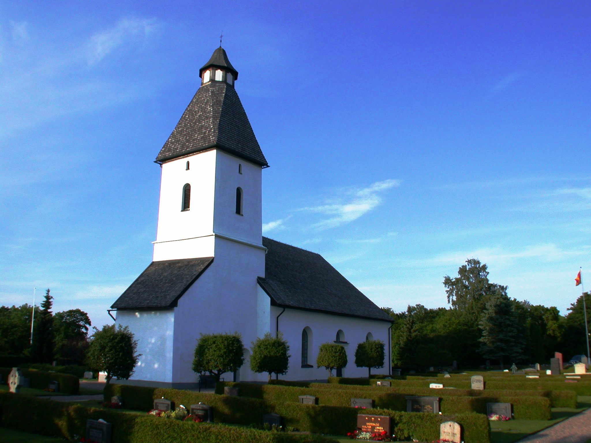 Lönsås church, Motala, Sweden. Photo by Riggwelter, July 5, 2006.